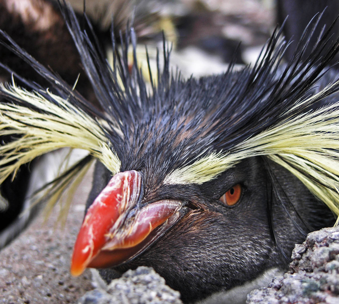 Rockhopper penguin in Edinburgh Zoo taken by me with an Olympus C8080W in 2004.